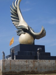 鳥嶼大鷹像